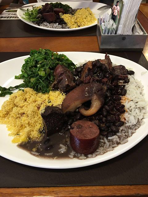 Feijoada com diversos acompanhamentos: arroz, mandioca frita, torresmo, laranja, caipirinha, entre outros.